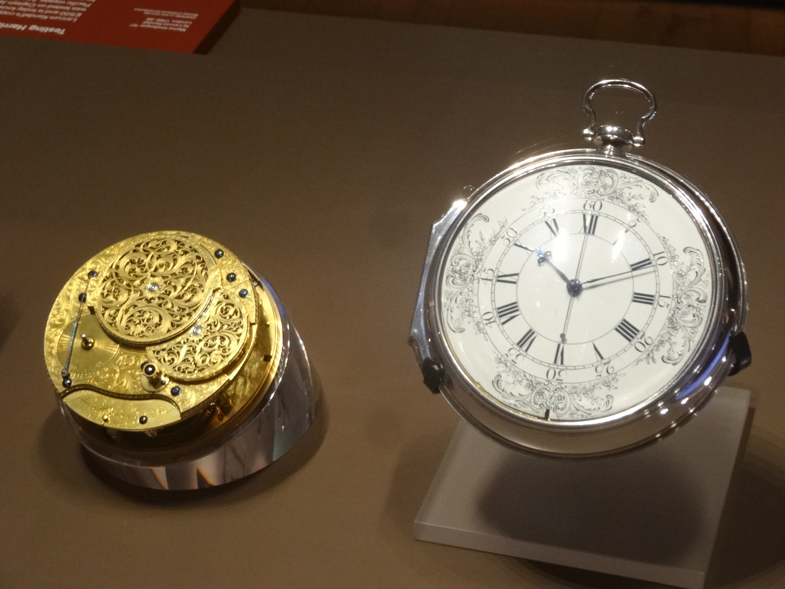 H4 timekeeper. Museum at the Royal Observatory, Greenwich